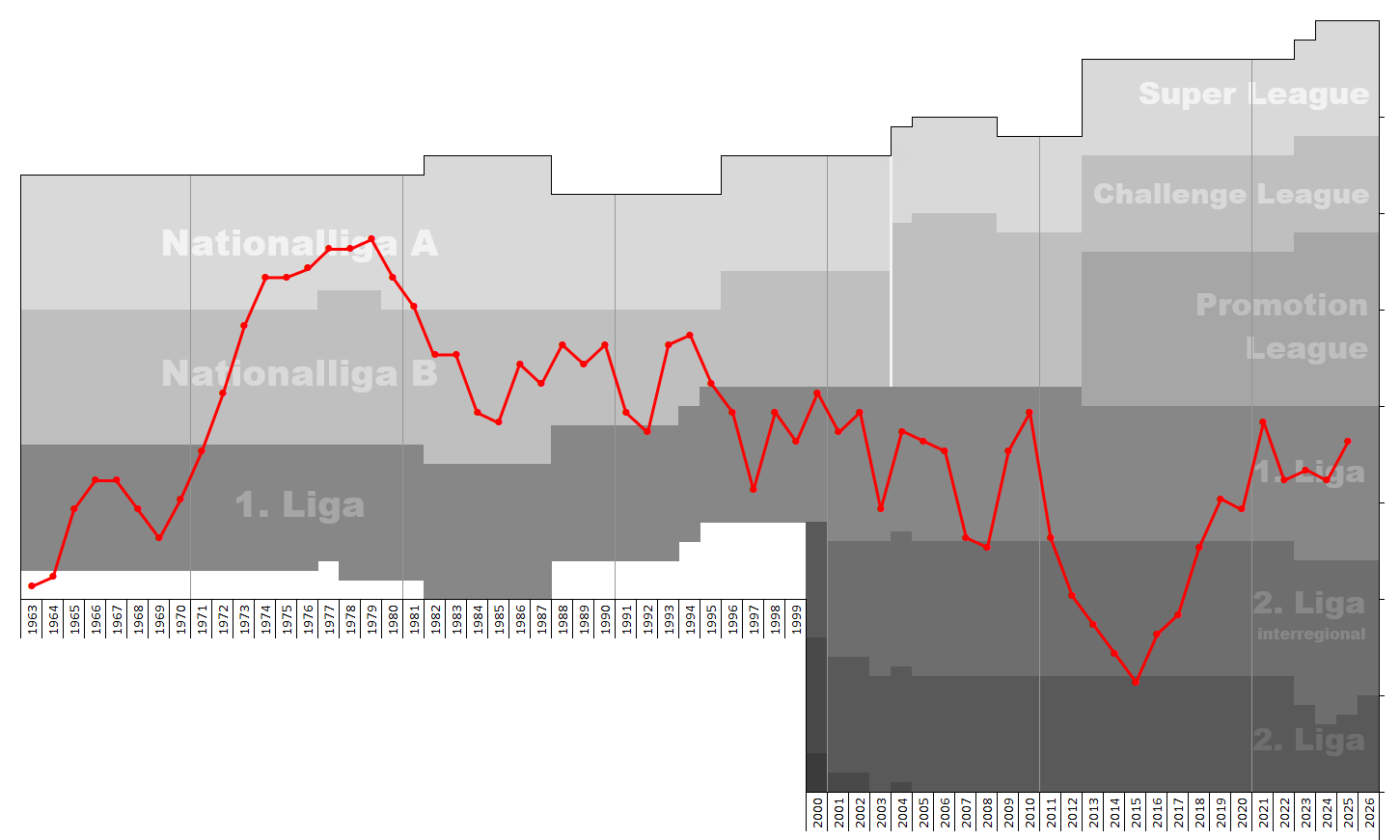 Chart of end-season table positions of CS Chenois in the Swiss football league system. Data source: RSSSF, , football.ch